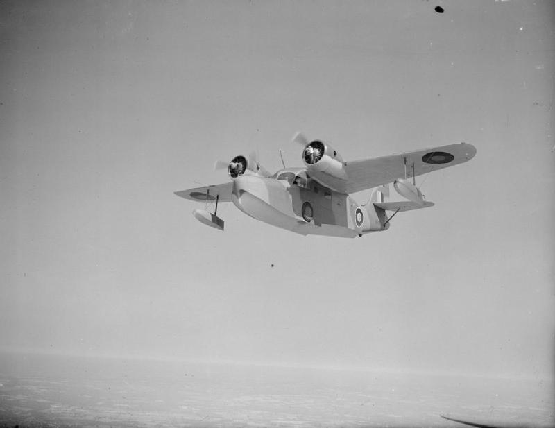 American Aircraft in Royal Air Force Service 1939-1945- Grumman Goose. Goose Mark I, MV993, of No. 24 Squadron RAF based at Hendon, Middlesex, in flight. This aircraft was formerly G-AFKJ, owned by Lord Beaverbrook.